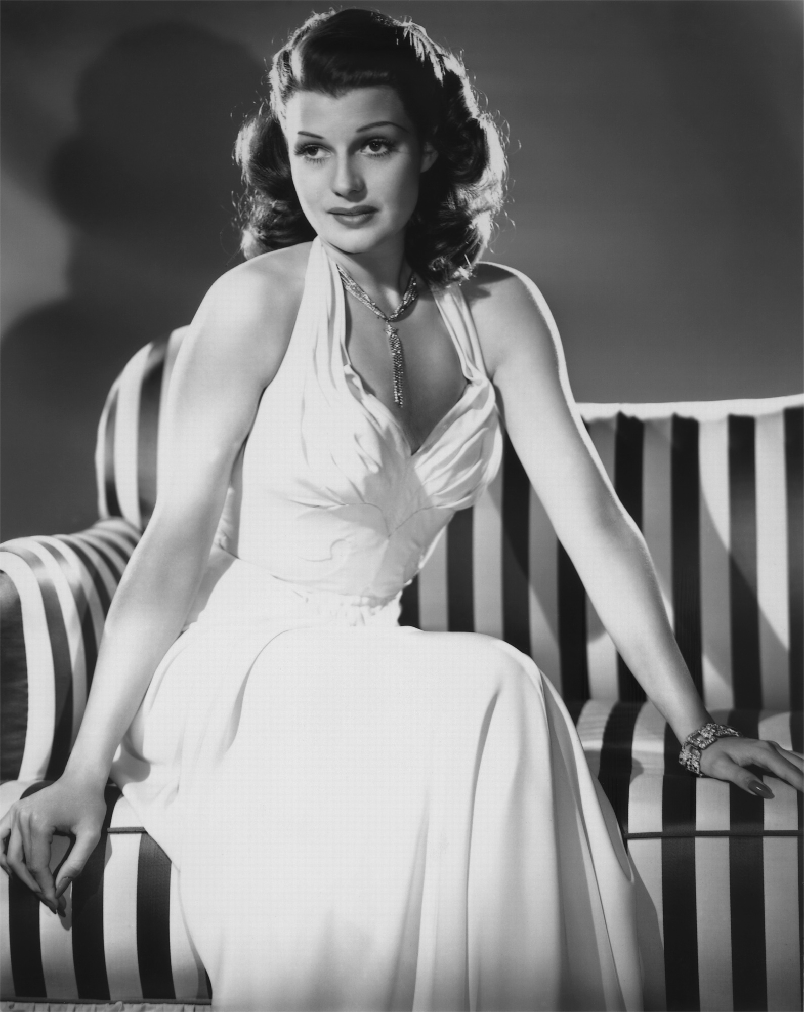 Studio publicity portrait for film Blood and Sand.